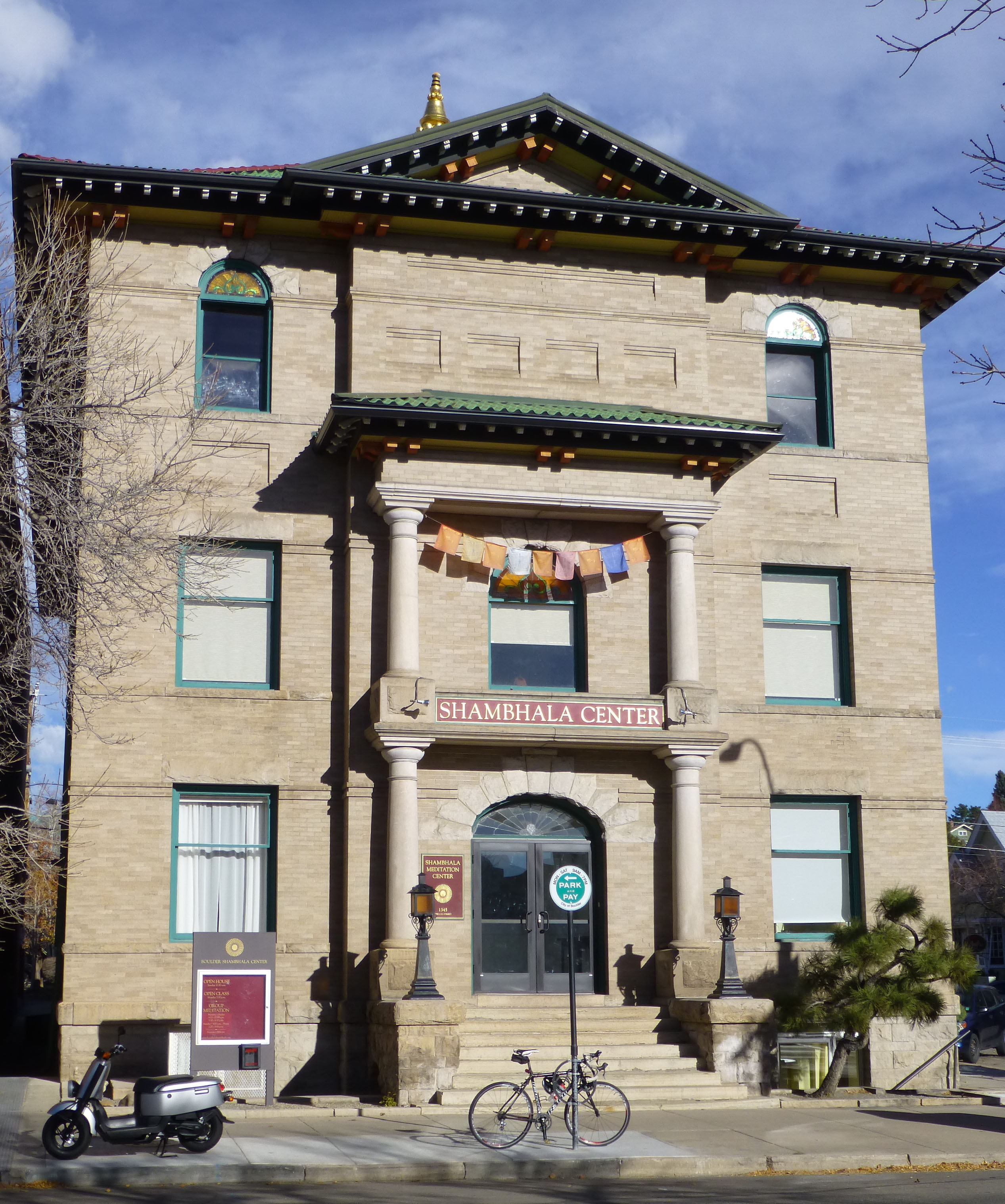 Shambala Center, Boulder, Colorado